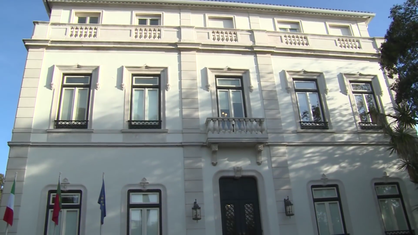 Saint Benedict Manor, official residence of the Prime Minister of Portugal.